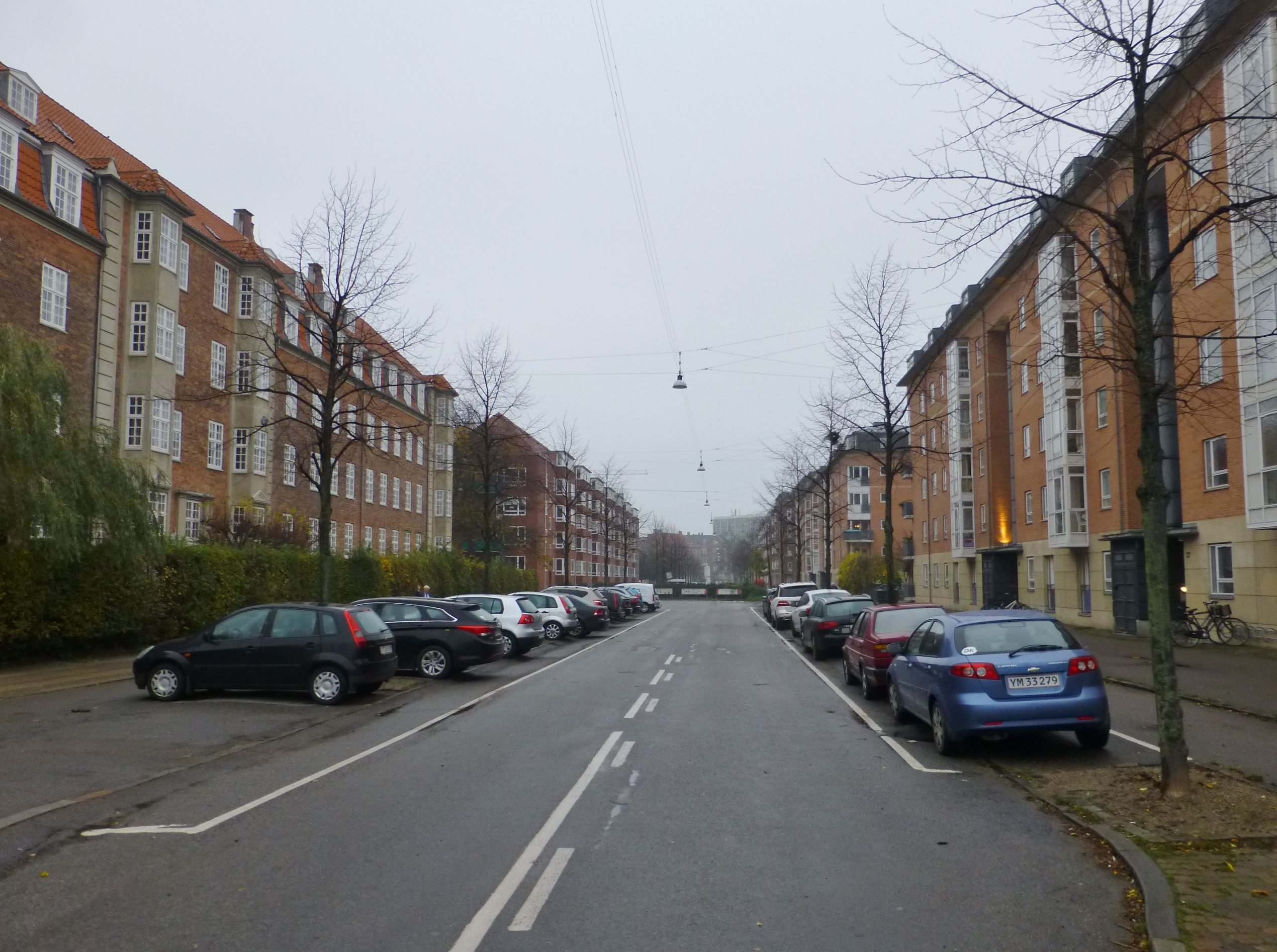 The street Borgmester Jensens Alle in Østerbro in Copenhagen.